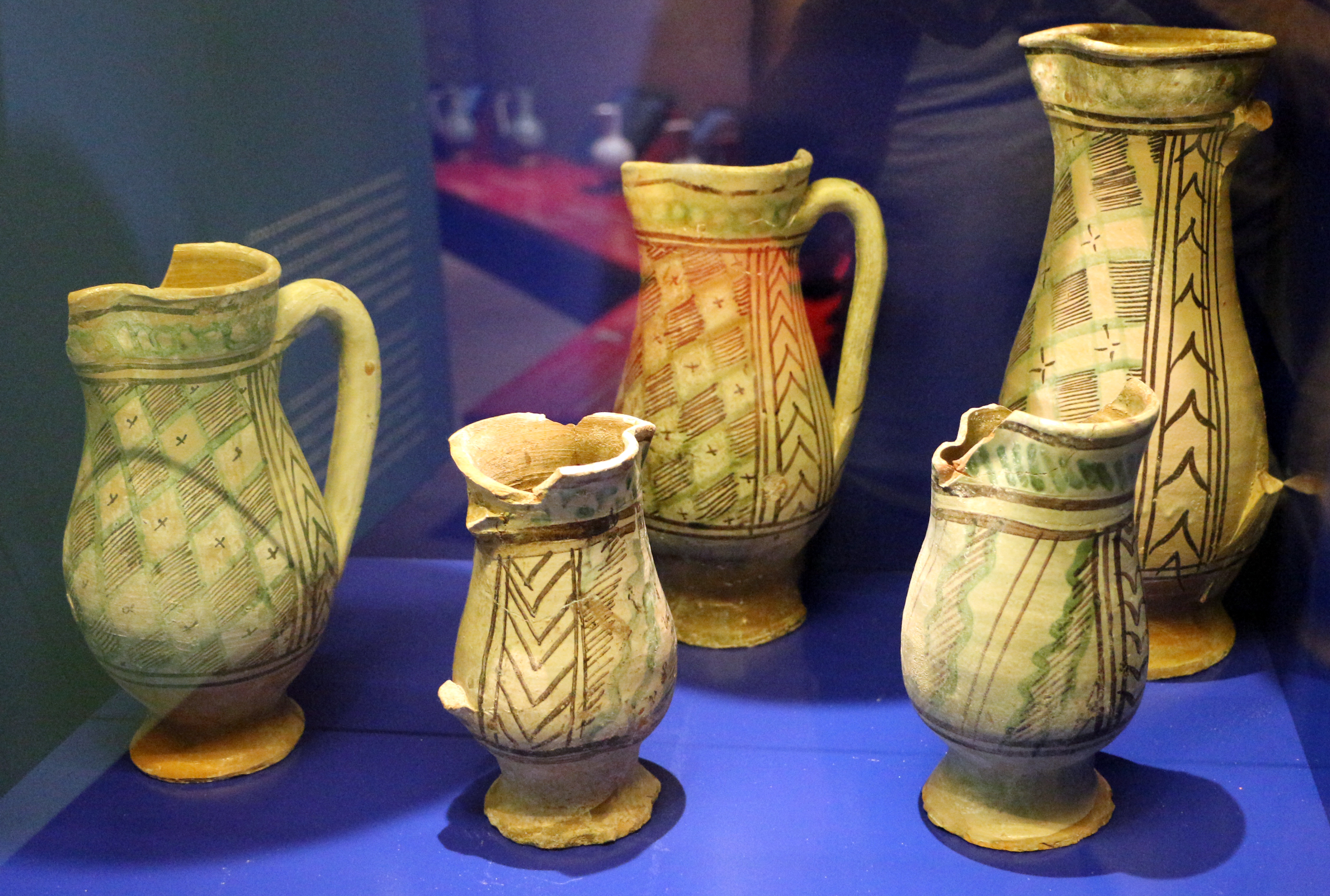 Archaic maiolica in the Castello di Piombino